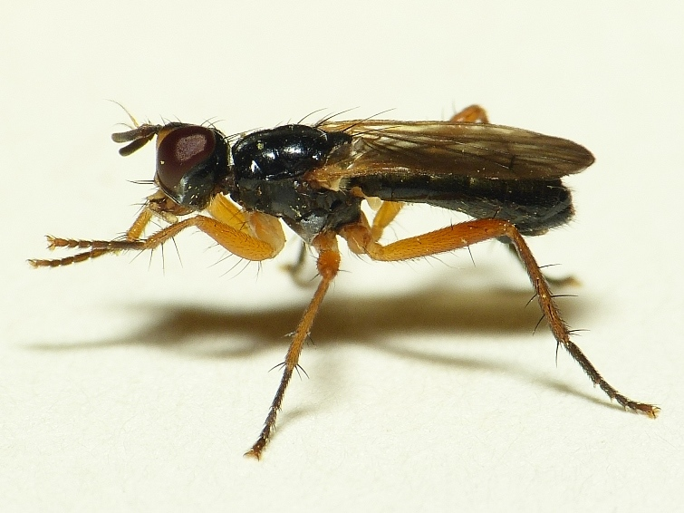 Phrosia albilabris, location: The Netherlands - Rhenen - Blauwe Kamer - Gelderland